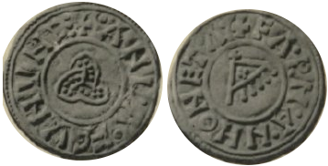 A penny minted at York in the reign of Amlaíb Cuarán (Anlaf Sihtricson). Obverse shows a trefoil ornament (triquetra, reverse a triangular pennon (identified (by whom?) as the raven banner). Obverse legend read as "ANLAF CVNVNC". Weight 17.3 grains, 0.8 fine. original caption (Grueber p. 20): Anlaf (Quaran), A.D. 940-944 and 948-952? Obv. +.ANL.A.F CVNVNC: Trefoil ornament of three bucklers? Rev. + FA.R.M.A.N.MONET.A. Triangular pennon, fringed, and bearing cross, AR.8.Wt.17.3